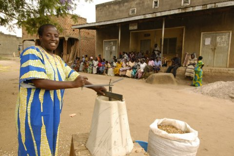 The first expedition to distribute the Malian Peanut Sheller (now known as the Universal Nut Sheller was to Uganda in January of 2005. This picture was taken of the first village the malian peanut sheller was taken to. The photograph was taken by Full Belly photographer Rex Miller. of